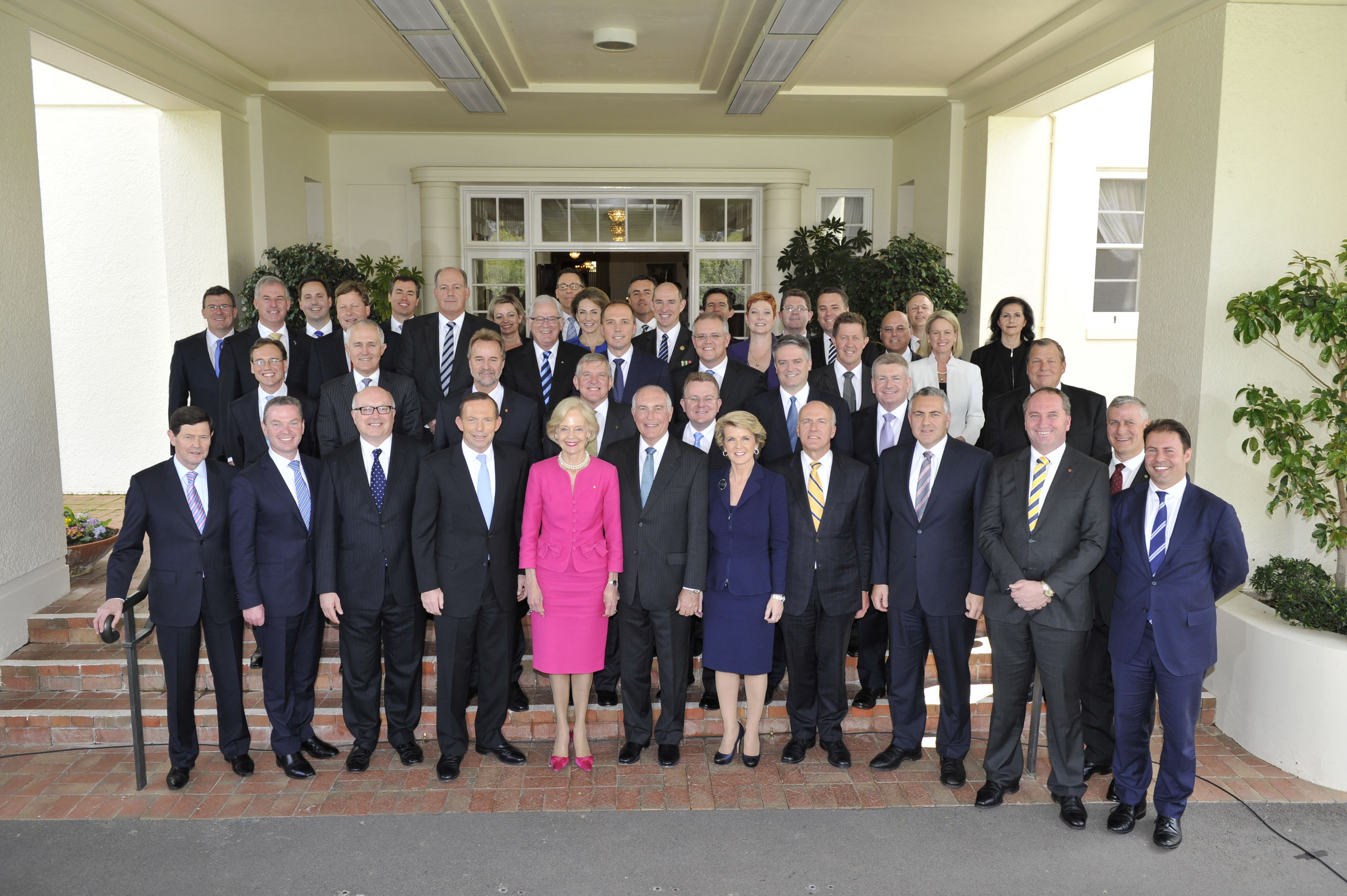 Quentin Bryce with the newly sworn in Abbott Government